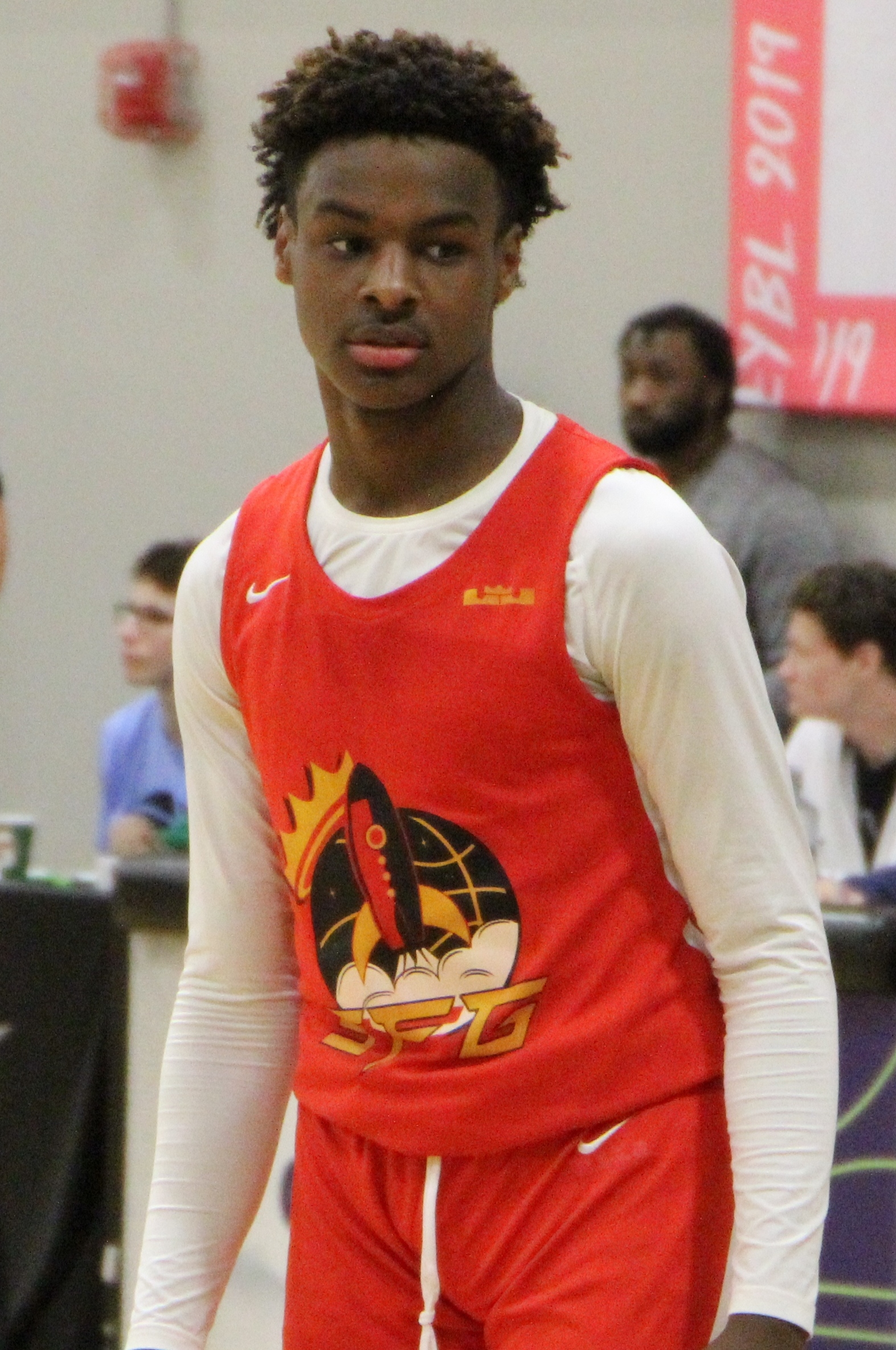 Lebron James Jr. plays for Strive For Greatness at the second session of Nike EYBL in Westfield, Indiana, on May 11. Photo: Colin Hass-Hill For more Ohio State basketball coverage, visit .